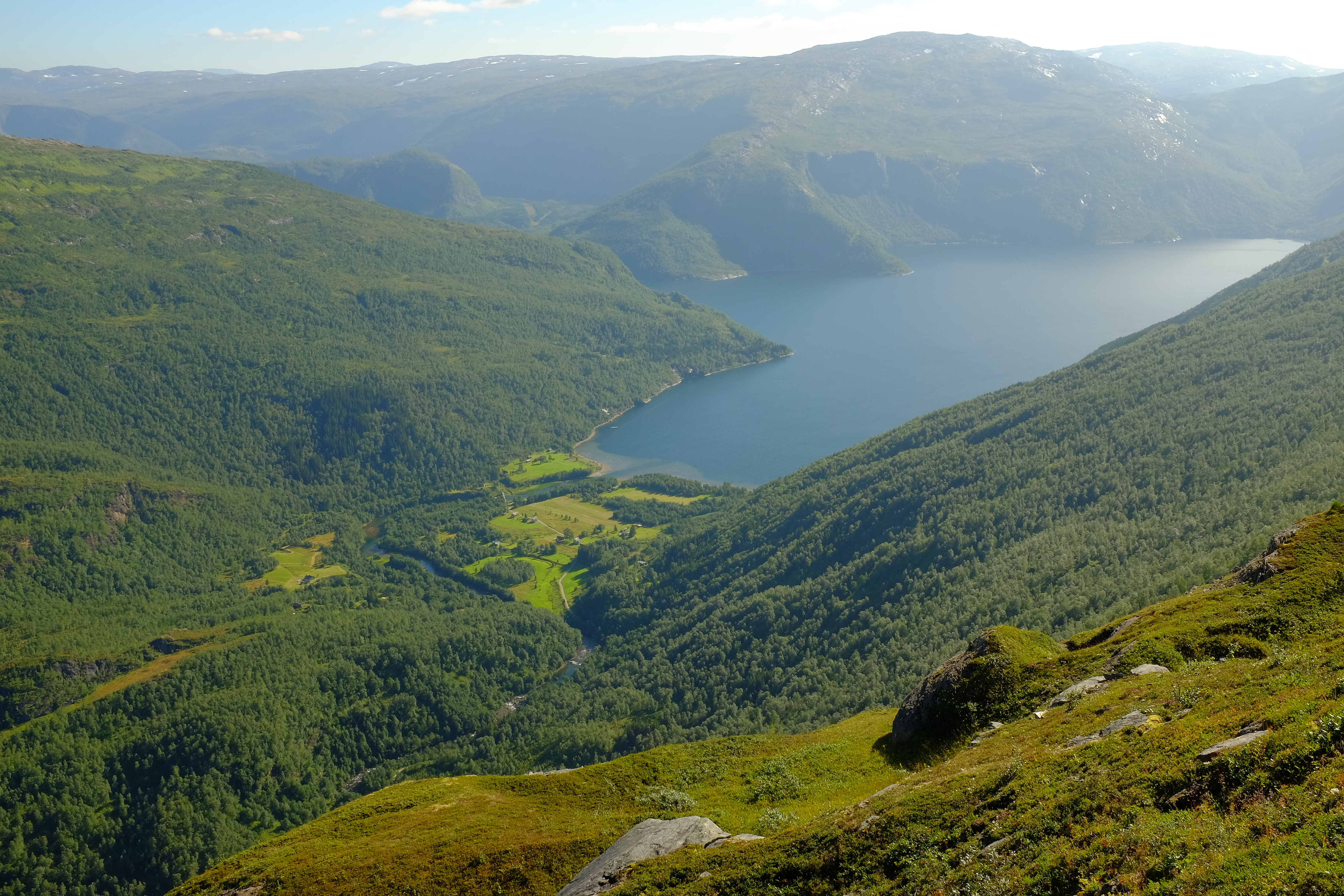 Lakså is an abandoned roadless village in a valley situated at the Øvervatnet lake in Fauske Municipality.